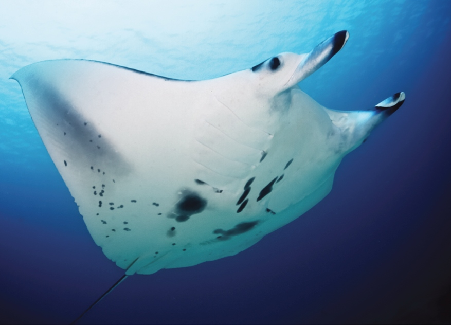 Manta alfredi cruising (swimming with cephalic lobes rolled and mouth closed).